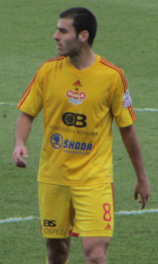 Spaniard Néstor Albiach of FK Dukla Praha during the match against FK Baumit Jablonec